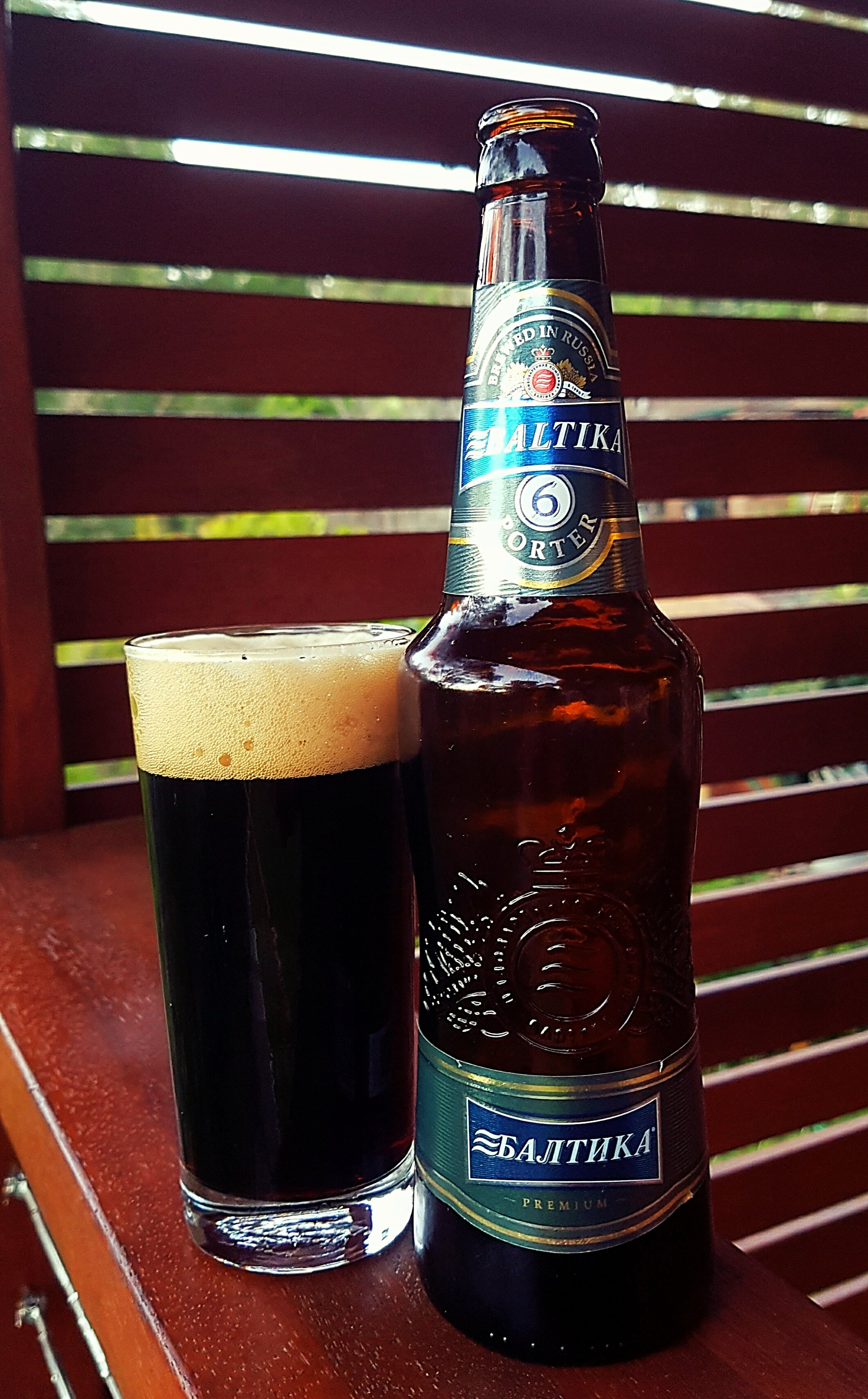 Baltika 6 Porter (beer) from Baltika Breweries, Russia